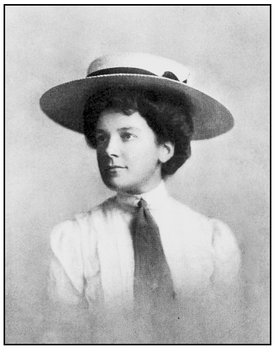 Dorothy Campbell in 1909, the year she won the United States Women's Amateur Championship and British Ladies Amateur Golf Championship. She went on to win three additional U.S. Women's Amateurs and another British Ladies Amateur. Orginal caption read: "Miss Dorothy Campbell, British and American lady champion, 1909."